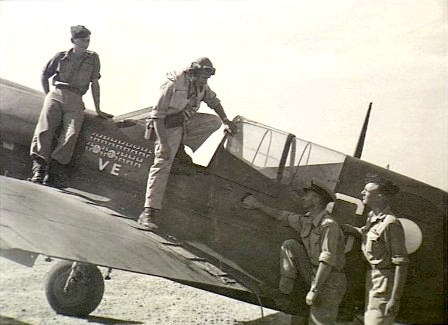 AWM Caption: Morotai, Halmahera Islands, Netherlands East Indies. c. 1945-03. "how was it, boss?" this was the question which these three NSW pilots asked Squadron Leader (Sqn Ldr) John Waddy DFC, of Rose Bay, NSW, Australia's third-ranking fighter ace and Commanding Officer No. 80 (Kittyhawk) Squadron RAAF, as he stepped from his Kittyhawk aircraft on the Morotai airstrip after a mission over the Halmaheras. Left to right: Flight Sergeant M. L. Cherry, Kensington, NSW; Sqn Ldr Waddy; Flying Officer S. Stephens, Ashfield, NSW; Sergeant G. Bushell, Cremorne, NSW. Note the tally below his cockpit depicting 13 German and 2 Italian aircraft shot down and the words "VE", signifying he was flying in the war in Europe.